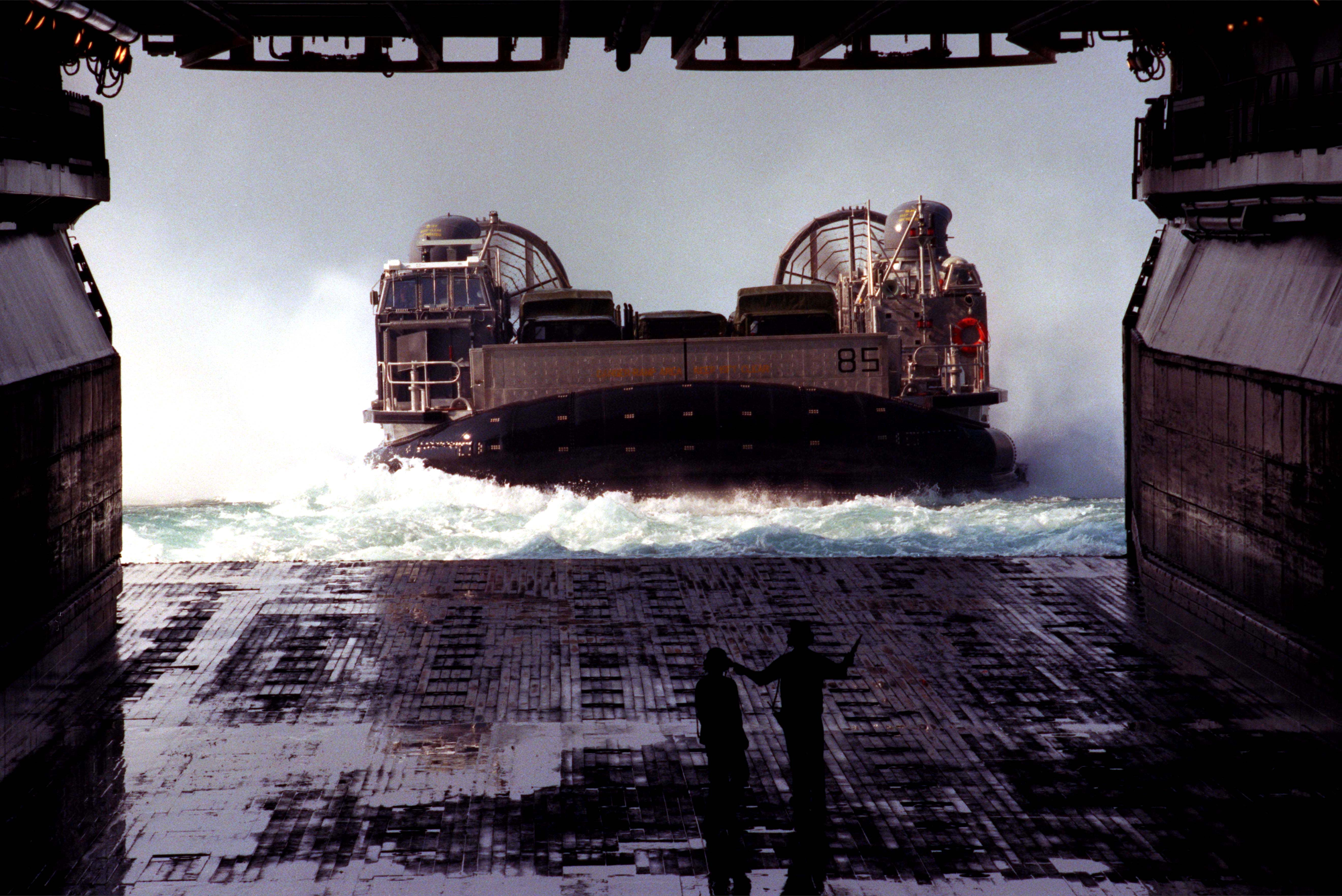 A U.S. Navy Landing Craft Air Cushion, loaded with equipment from the 26th Marine Expeditionary Unit, prepares to enter the well deck of the USS Wasp (LHD 1) as the ship steams off the coast of Camp Lejeune, N.C., on Oct. 8, 1997. The Landing Craft Air Cushion, or LCAC as it is more commonly called, is a hydrofoil craft used to ferry troops and equipment for amphibious landing operations. This Navy-Marine Corps team is honing their skills in preparation for their up-coming deployment. DoD photo by Pfc. J.T. Watkins, U.S. Marine Corps.